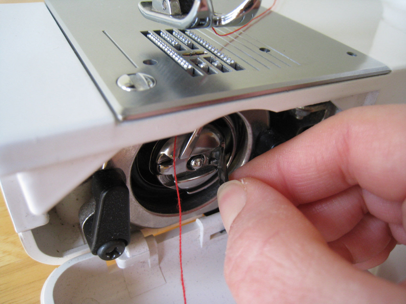 The bobbin case of a sewing machine. Originally taken for